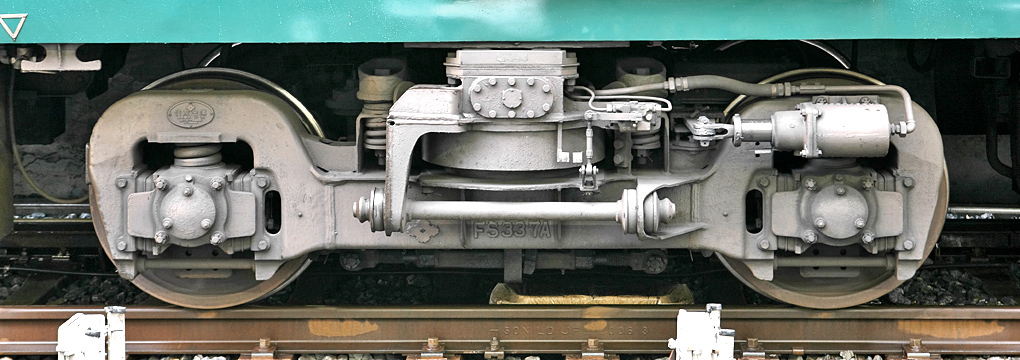 Sumitomo Metal Industries type FS-337A bogie truck of Keihan 2600 Series EMU ( 2717 ).